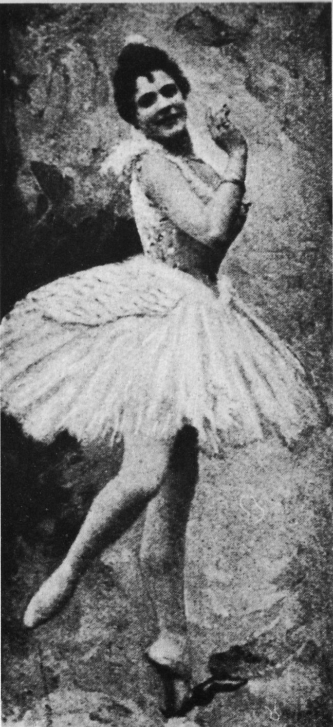 Pierina Legnani as Odette in Marius Petipa and Lev Ivanov's revival of Swan Lake, St. Petersburg, 1895